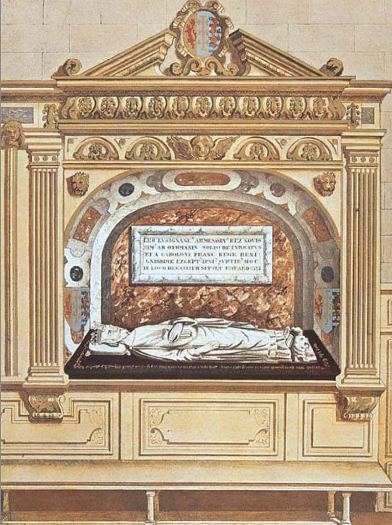 Leon V tomb in the Couvent des Celestins.